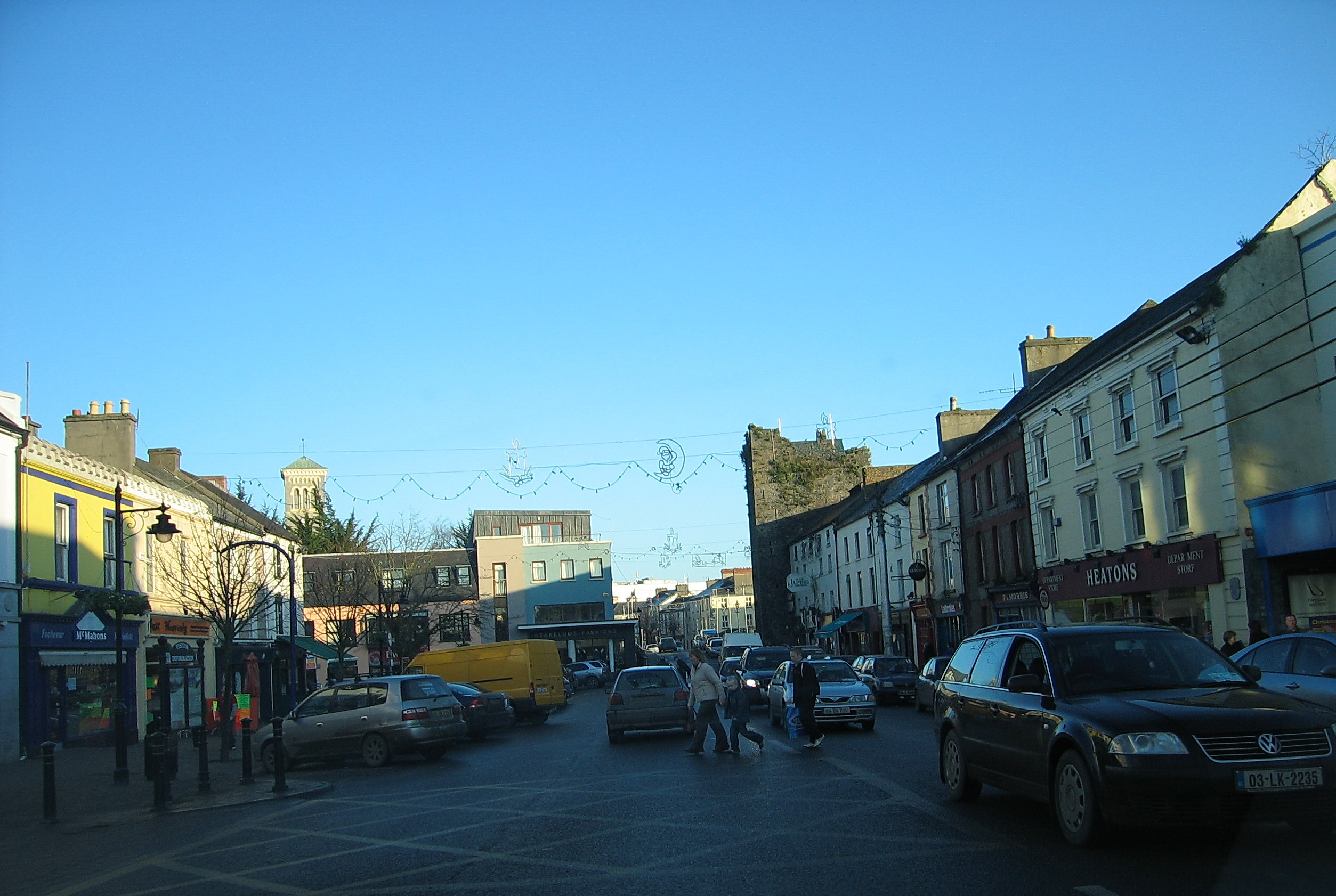 Thurles Market Square